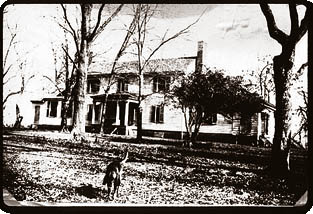 Photograph of a Wilcox House, Flowerdew Hundred Plantation, Virginia, USA